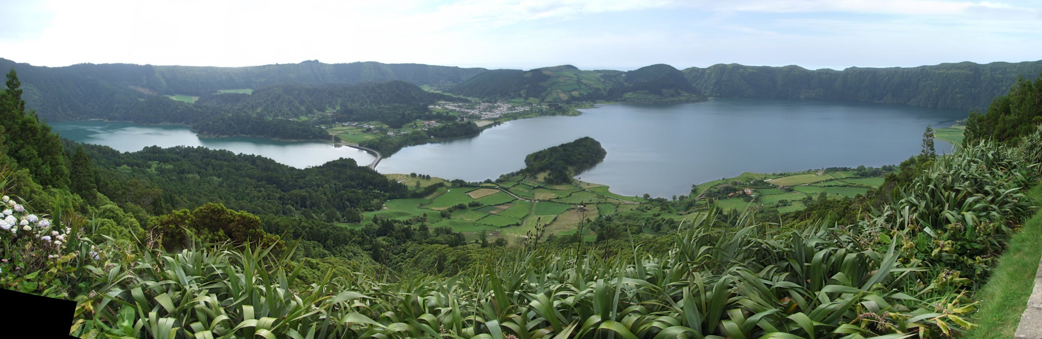 São Miguel, Sao-Miguel, Azores, Portugal